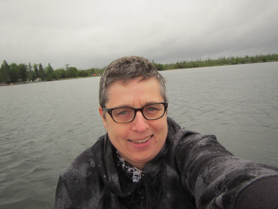 Laurie Hendren during an early morning kayak at Chandos Lake, Summer 2014